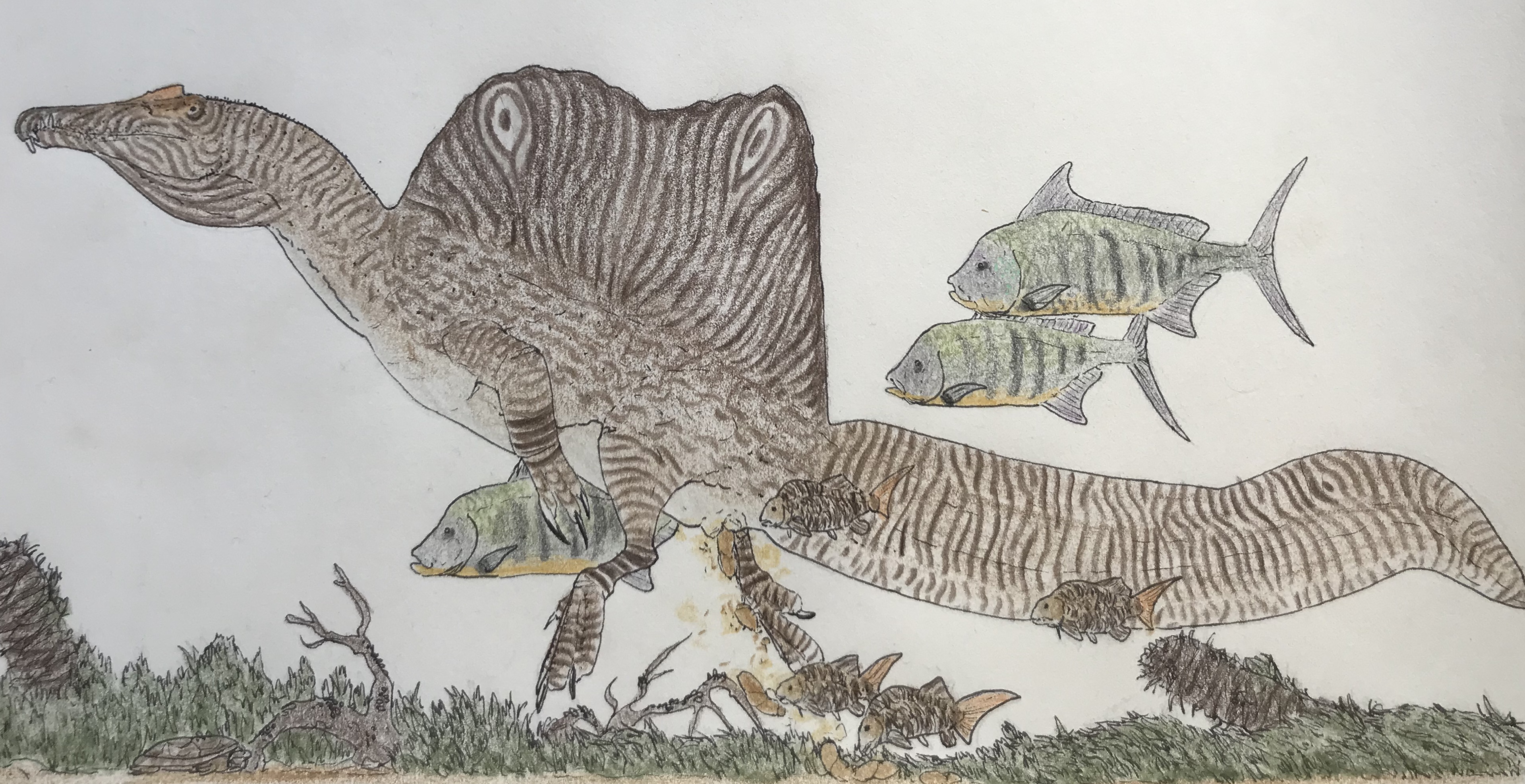 Spinosaurus aegyptiacus along with some of the animals of its environment of the Kem kem beds, Concavotectum and Adrianaichthys